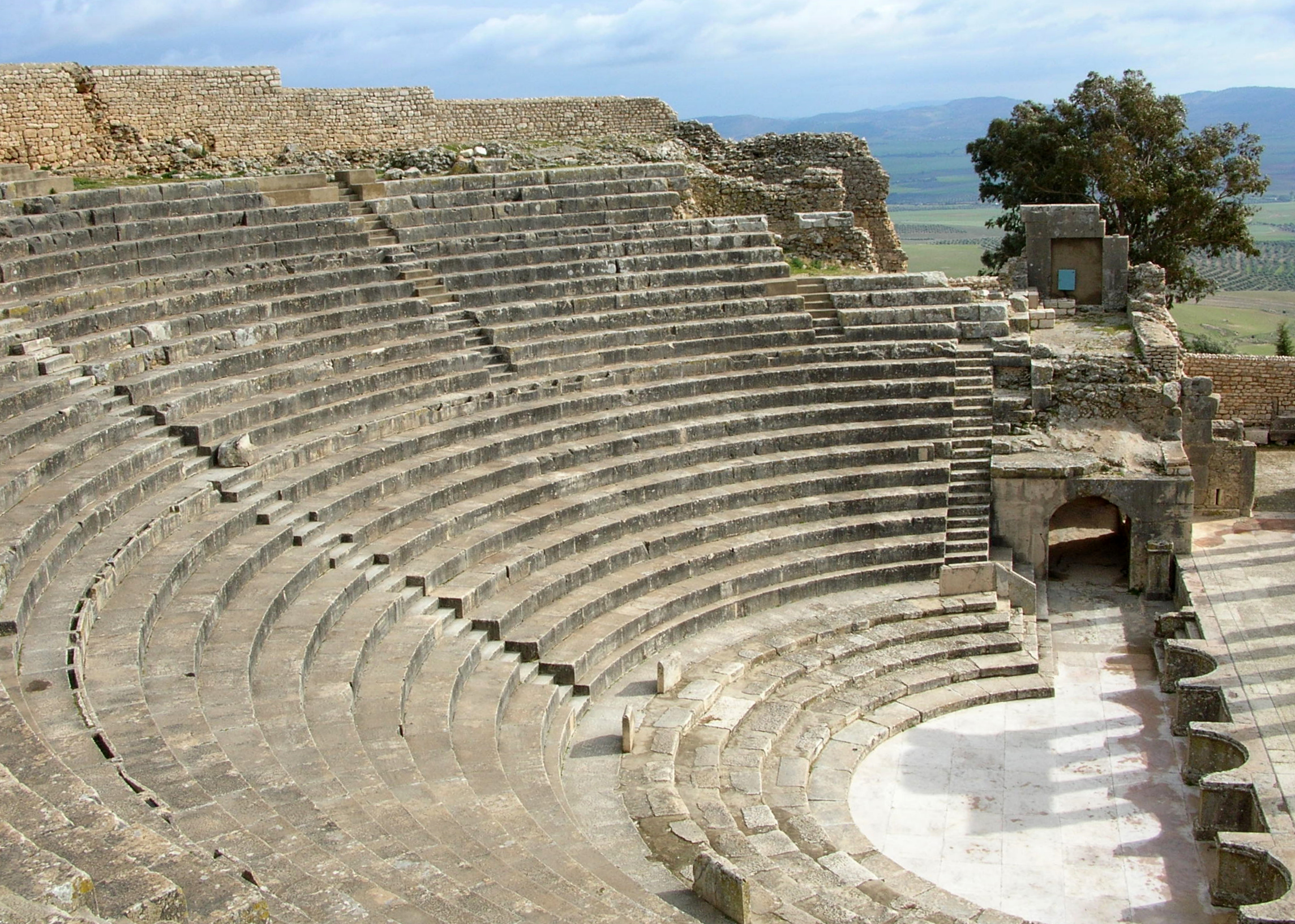 Roman theatre of Dougga, Tunisia